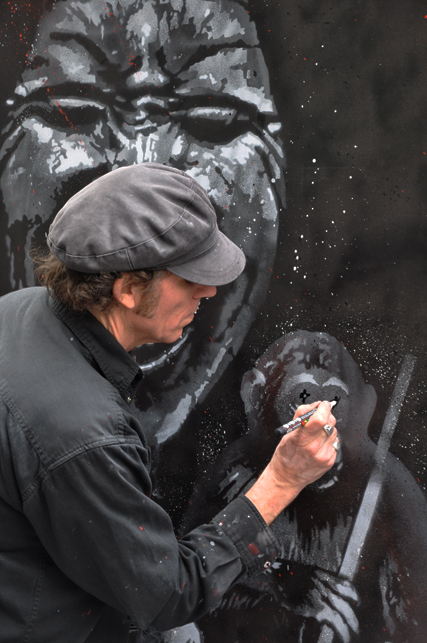 Jef Aérosol at work in Paris